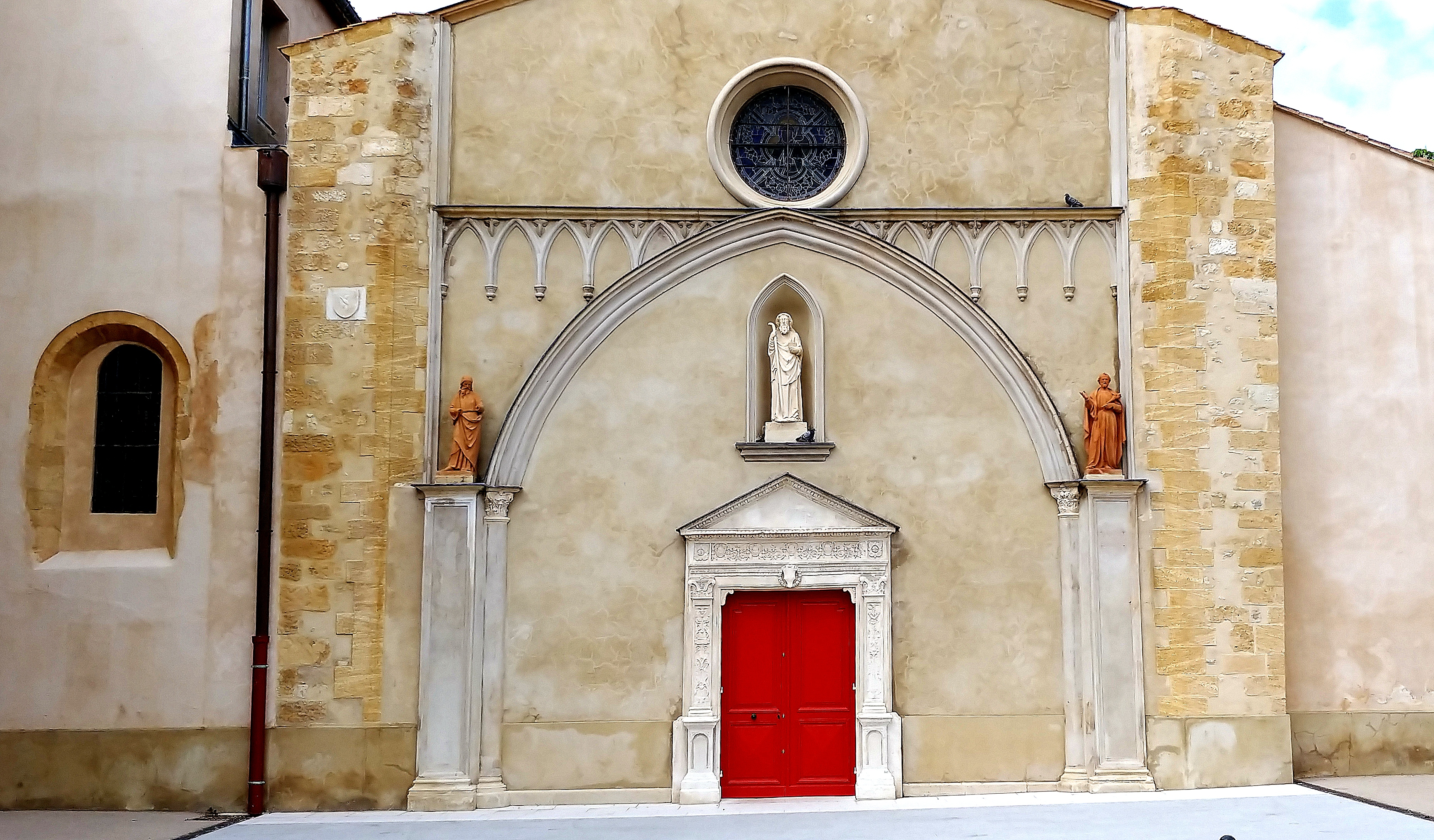 Chapell Notre-Dame-de-Consolation at Aix-en-Provence in Bouches-du-Rhône, in 2019